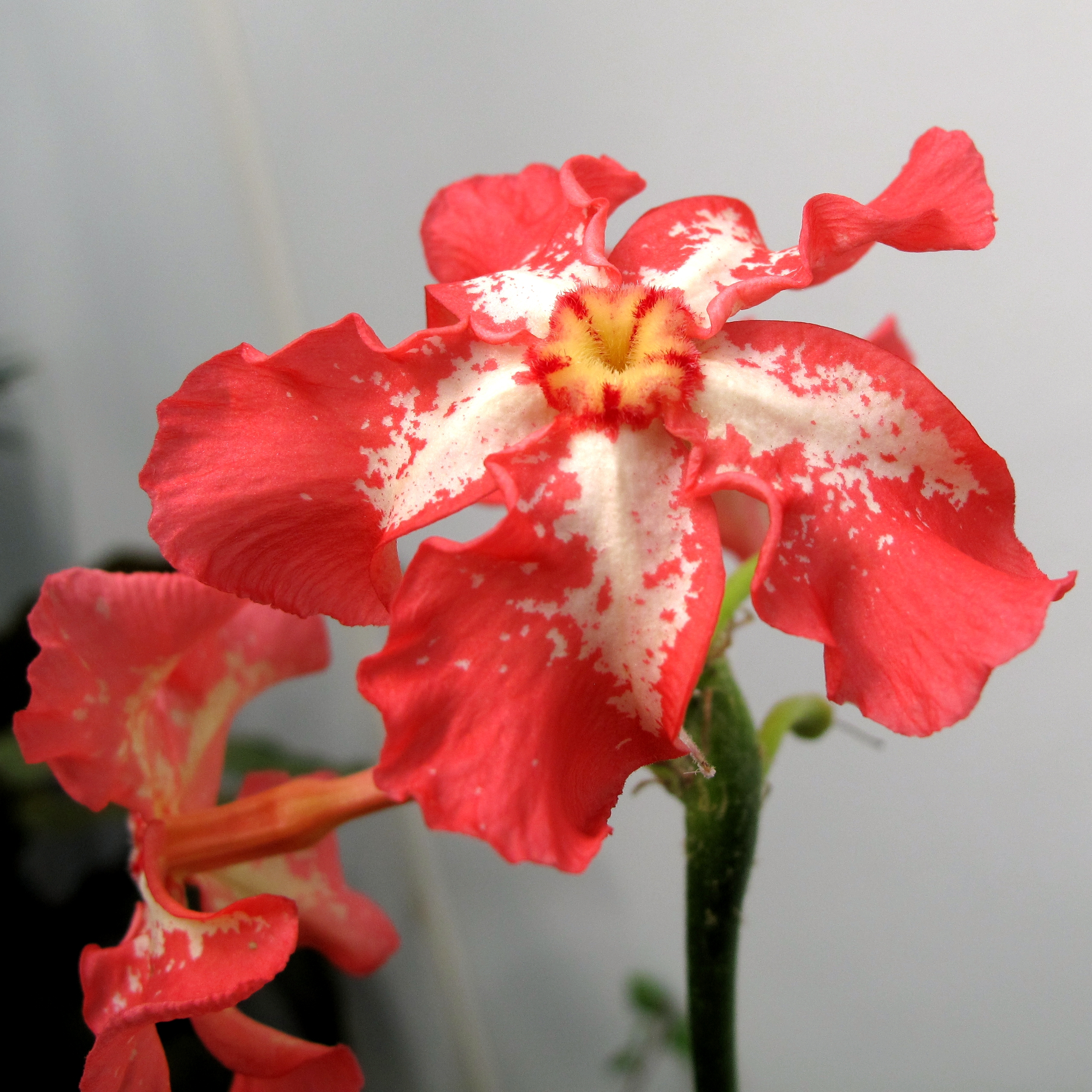 Pachypodium baronii